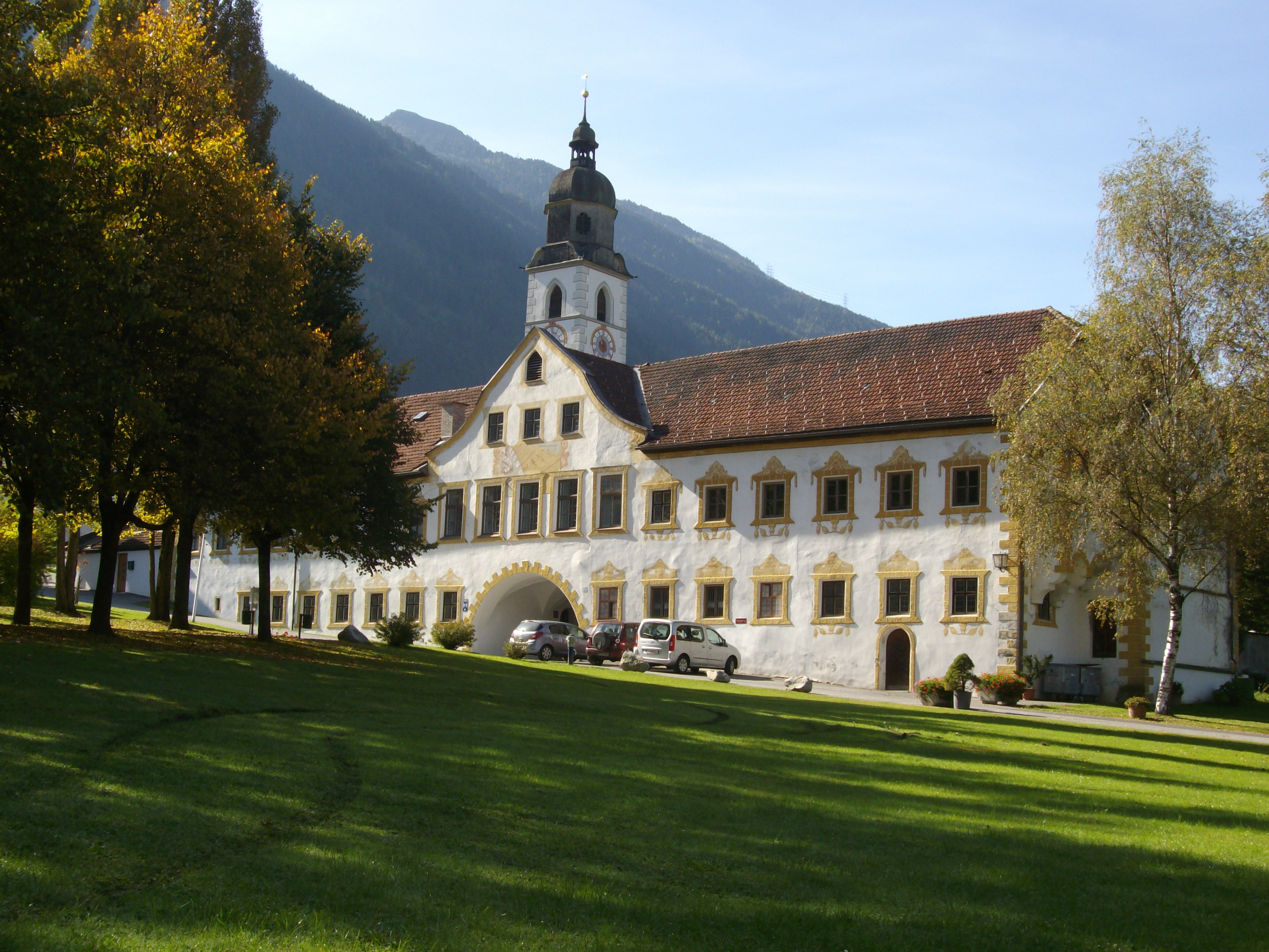 Stift Stams, sight of the outside garden, former court house This media shows the remarkable cultural object in the Austrian state of Tyrol listed by the Tyrolean Art Cadastre with the ID 33660. (More images on Commons)